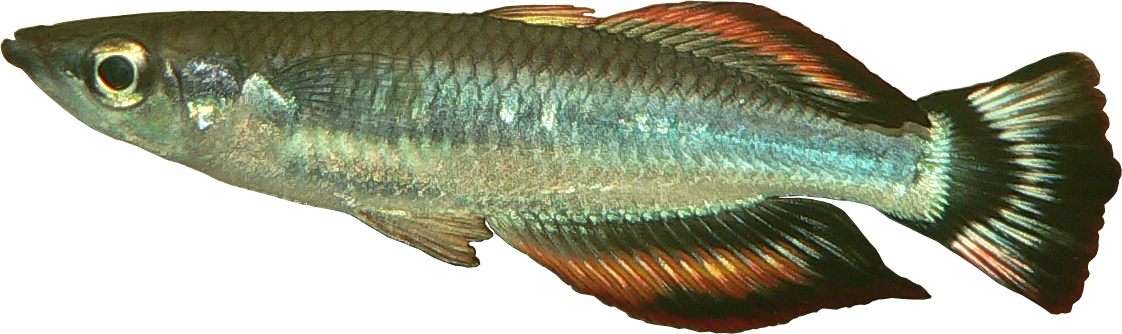 A yet undescribed species of Bedotia (Bedotiidae), known as B. nov. sp. "Ranomafana". This species is endemic to the middle Namorona River, the local name is "jono". Picture taken from a glass tank at the ValBio research station, Ranomafana National Park